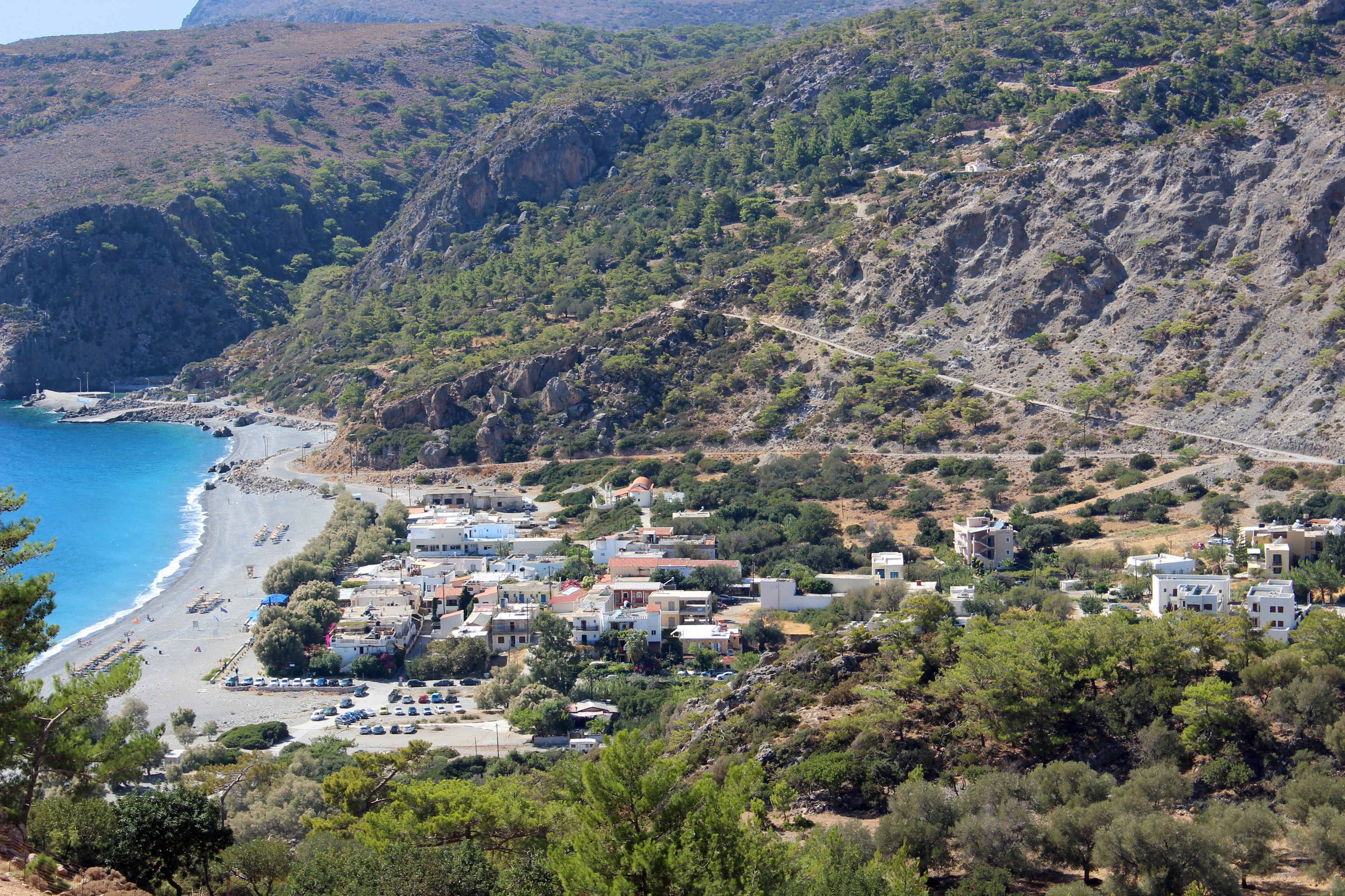 Distant view of Soúgia, a village in the municipalitie Anatoliko Selino, in the southwestern part of the island of Crete, Greece